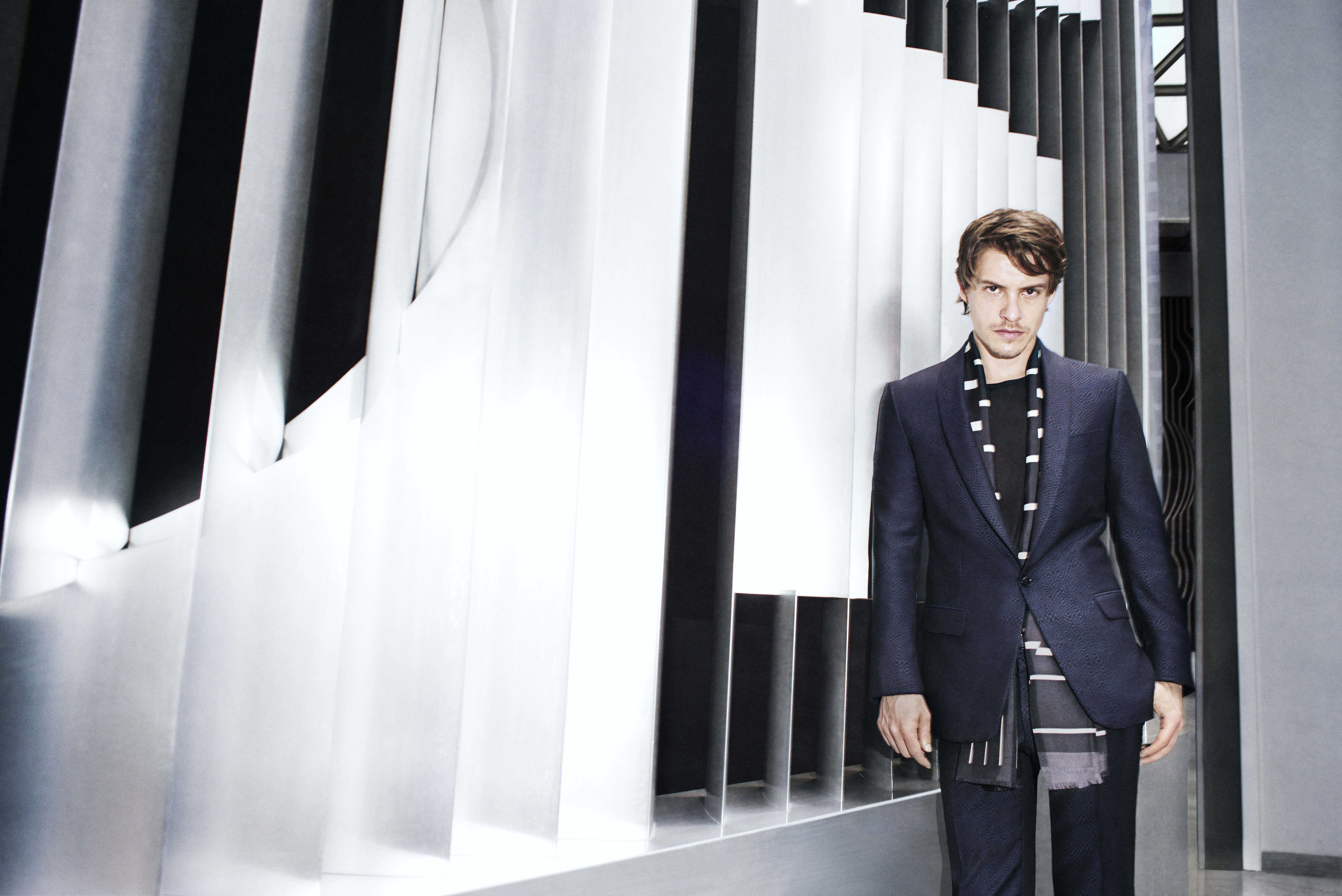 Xavier Samuel, testimonial for the SS16 campaign